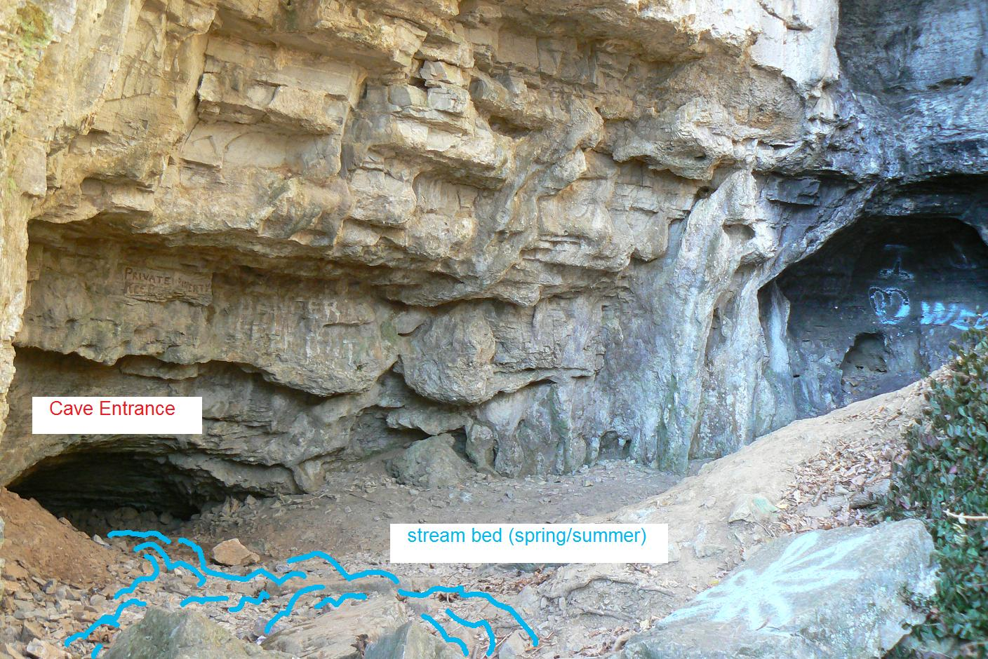 Howell Cave, located along the C&O Canal near Cedar Grove, Maryland.